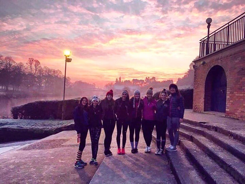 Harper Dadams womens crew at Pengwern training